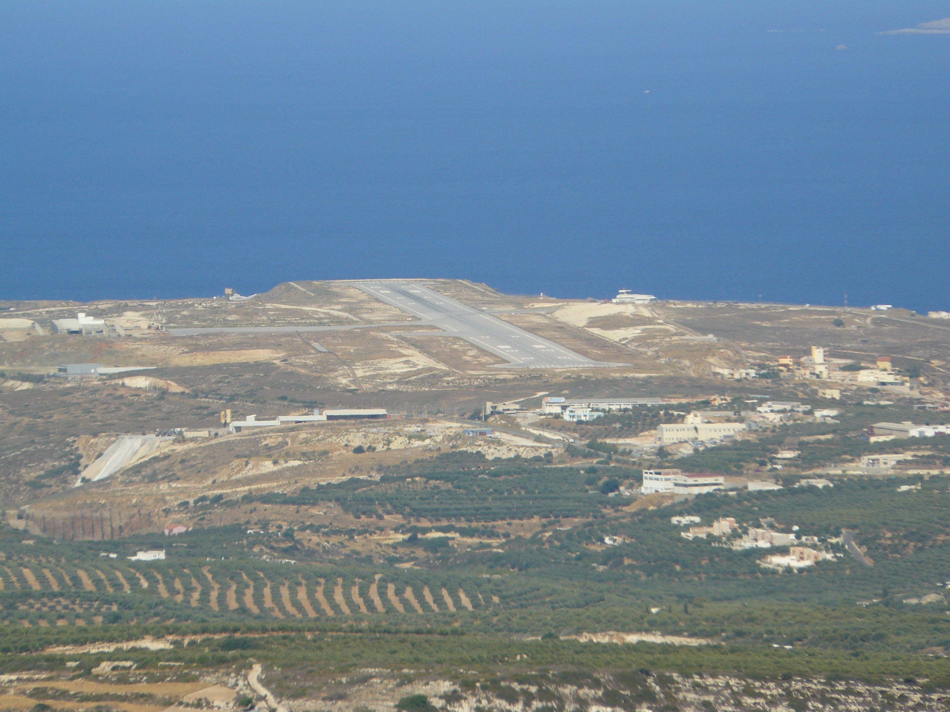 Sitia Public Airport, Crete, Greece. View from archaeological site of Hamezi.